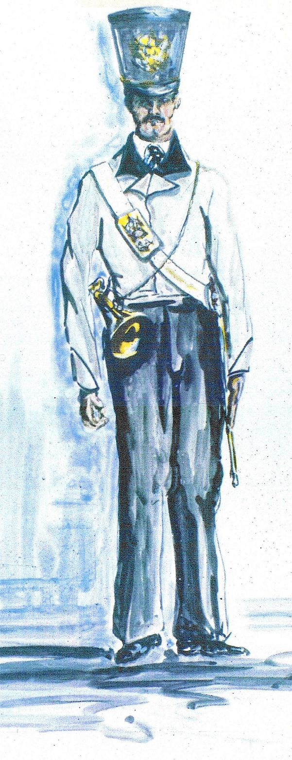 Guarda da Alfândega de Angra de 1831